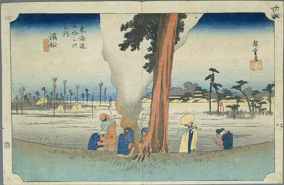 Hamamatsu on the Tokaido, ukiyo-e prints by Hiroshige